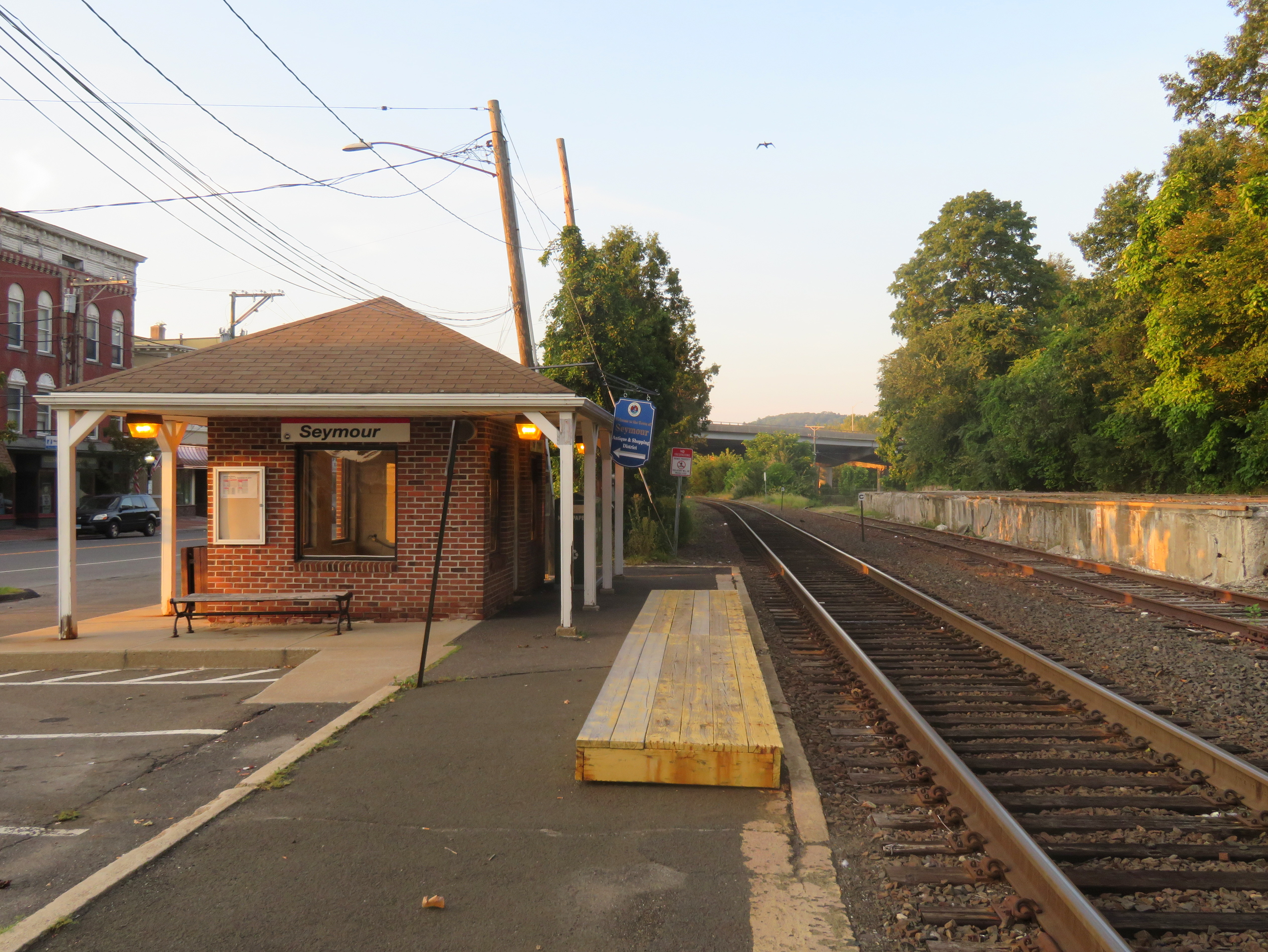 Seymour station in September 2018. The remains of the former freight house are at right.